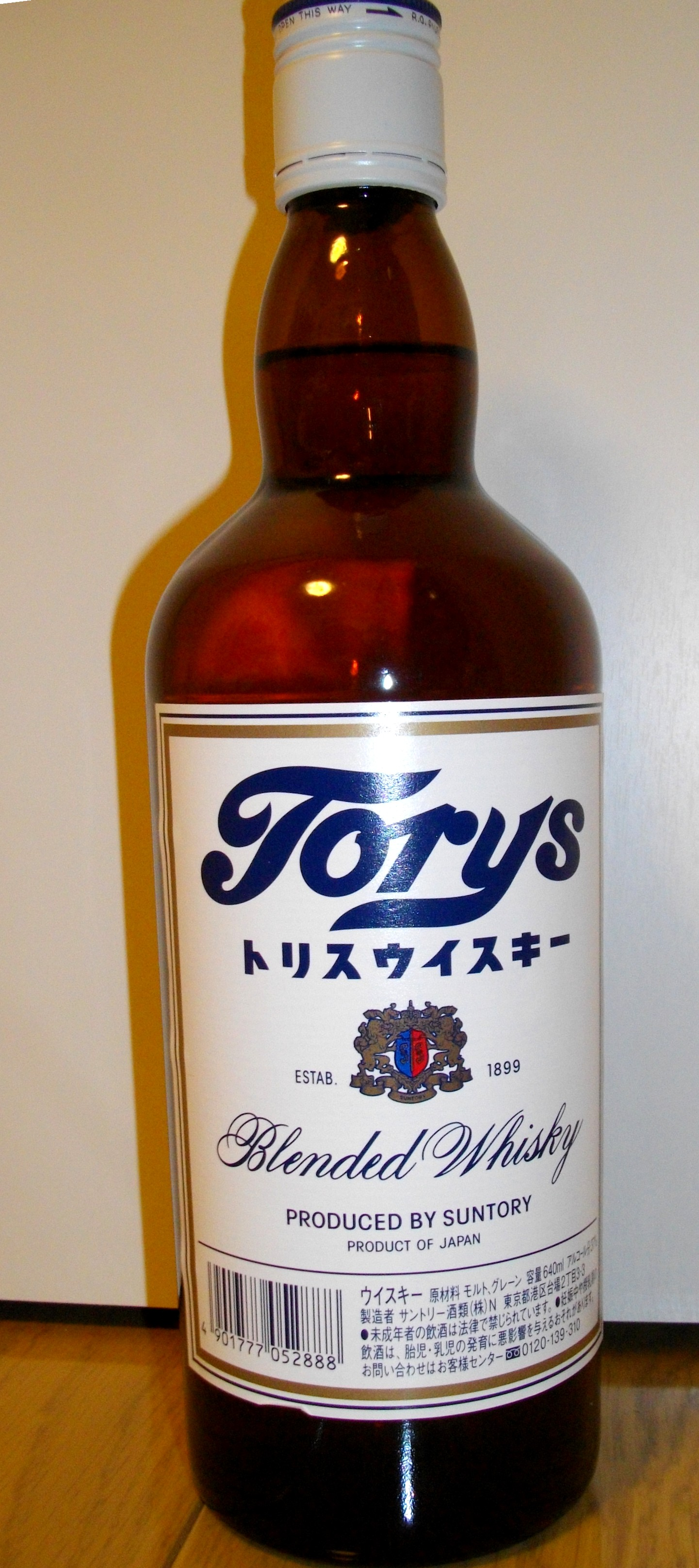 Suntory Torys Whisky